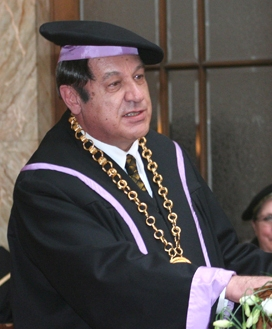 Picture of Prof. Bernd Michael Rode